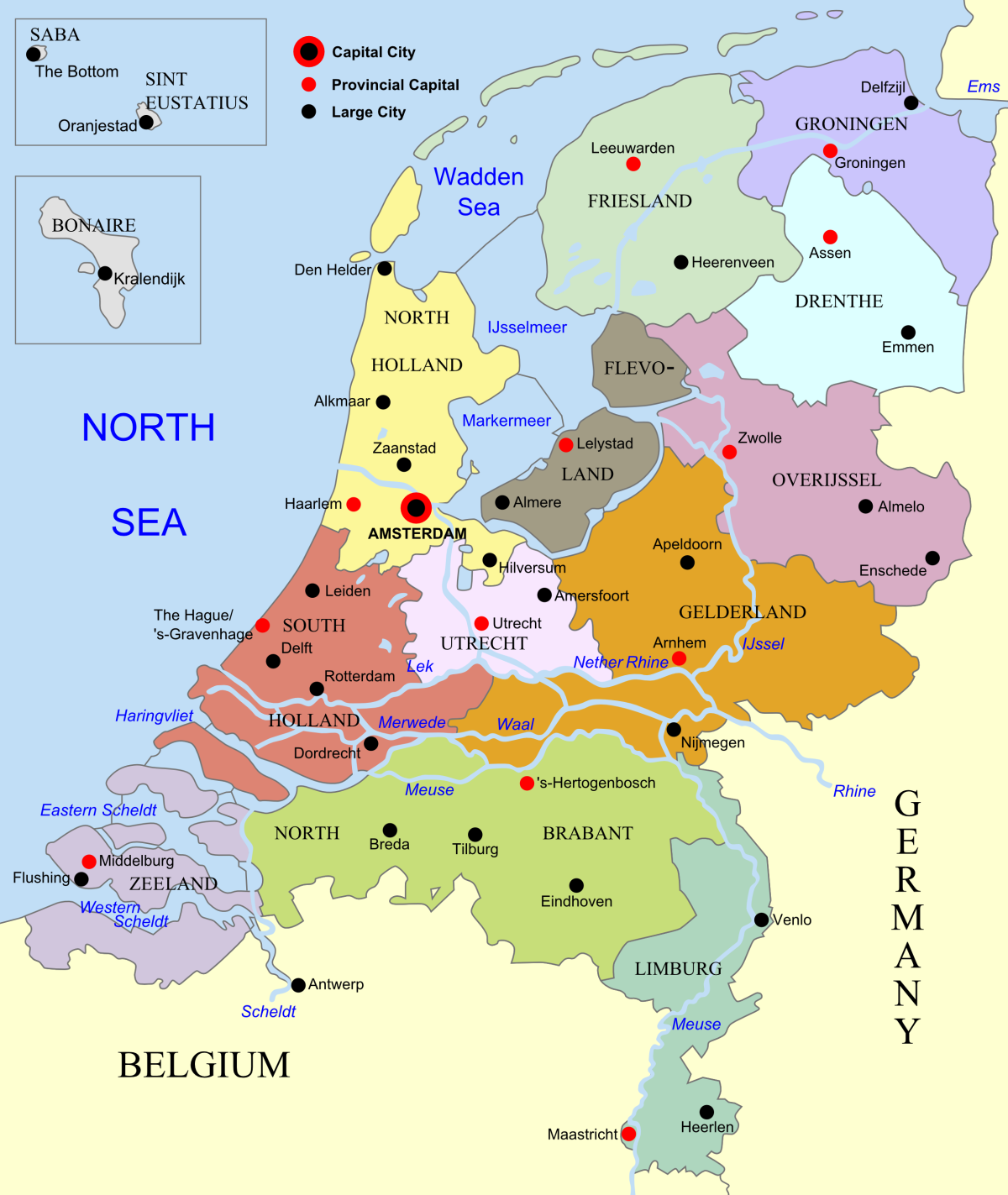 The red dots are the capitals of the provinces. The capital of the Netherlands, Amsterdam, has a red/black dot. The rest are the bigger cities.